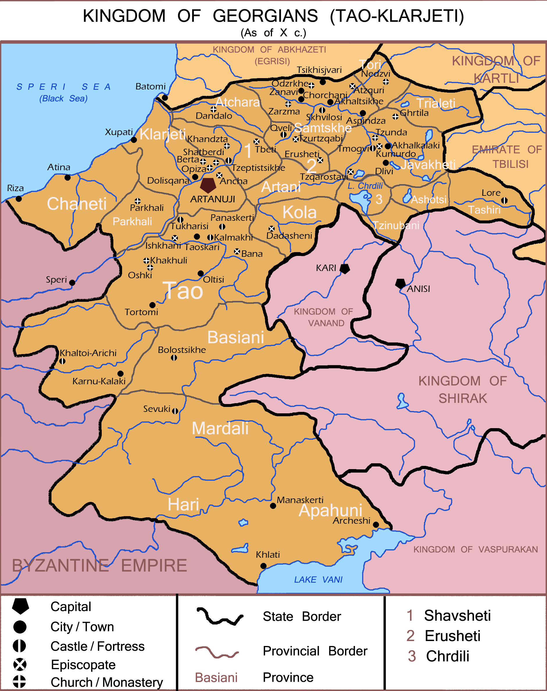 Kingdom of Georgians ("Kartvelta Samepo") aka Tao-Klarjeti